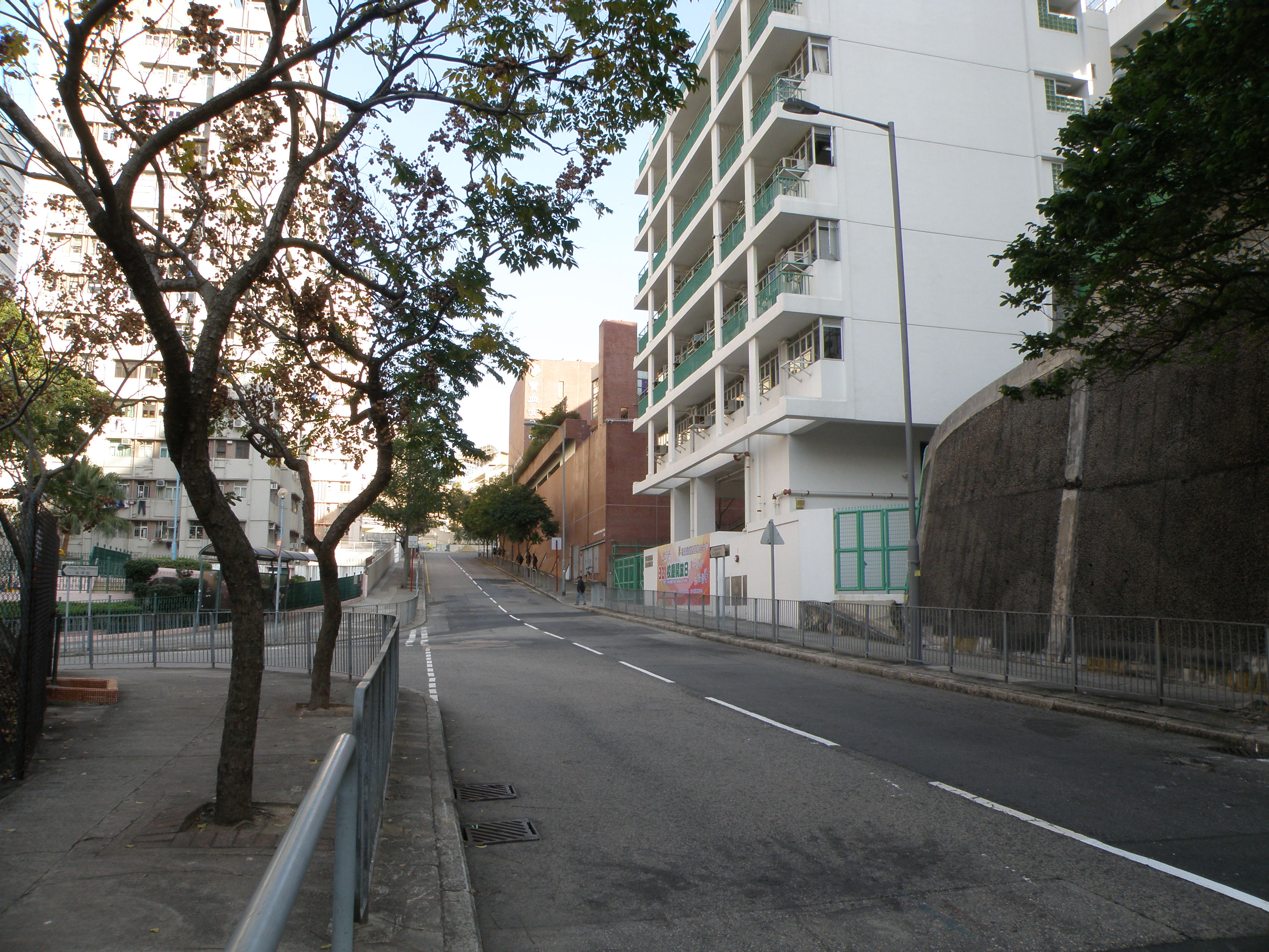 San Ha Street in Chai Wan, Hong Kong.